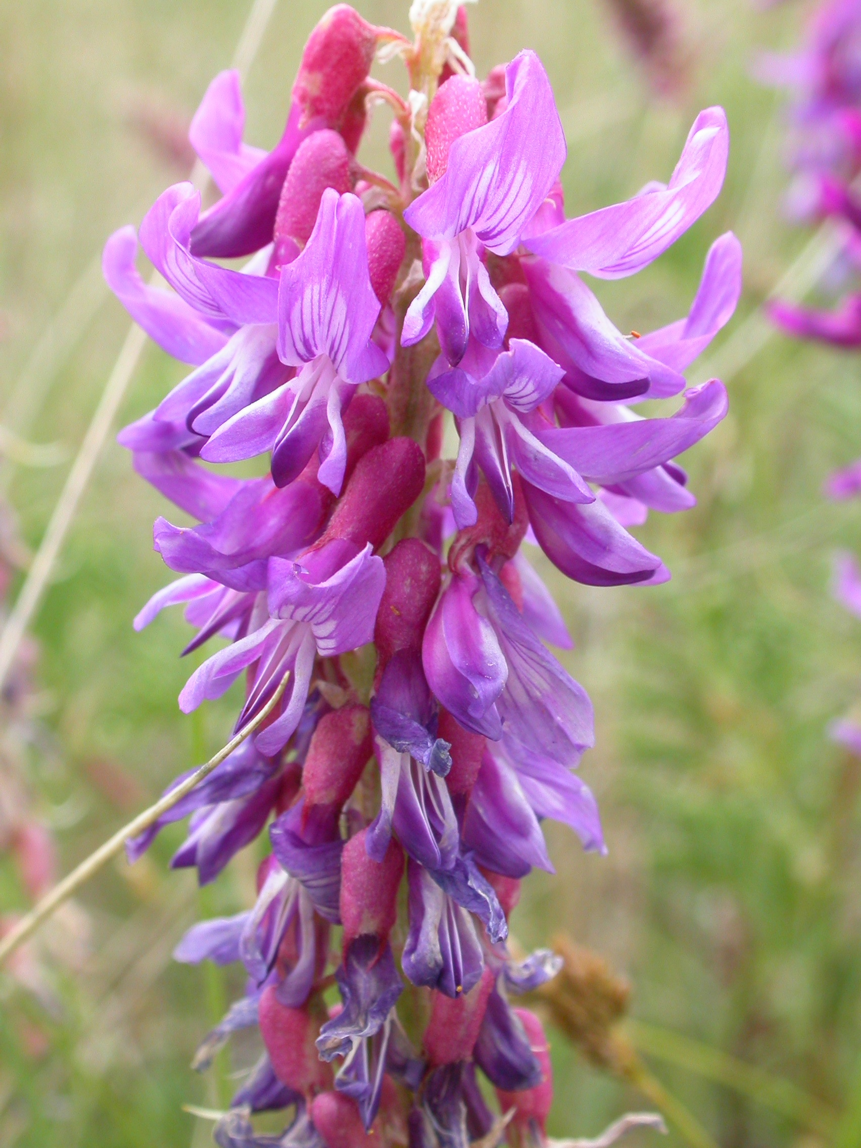 The smell of selenium (a sulfur analog) is not evident in populations from this region. In addition, this Astragalus is found in this area mostly in undisturbed sagebrush steppe settings.